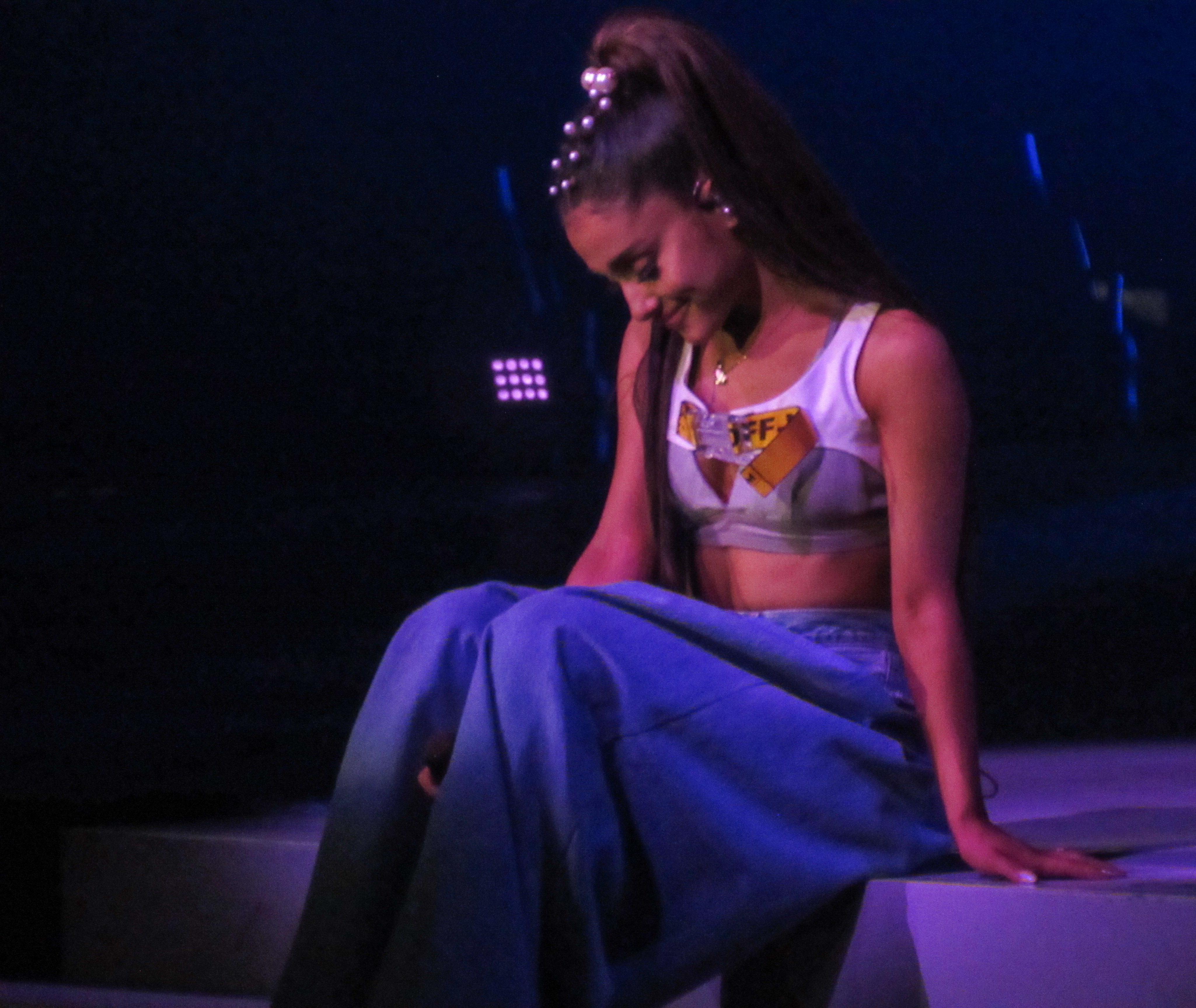 Dangerous Woman Tour 2/19/17 Ariana Grande performing during Dangerous Woman Tour in Manchester, New Hampshire, SNHU Arena, on February 19, 2017.